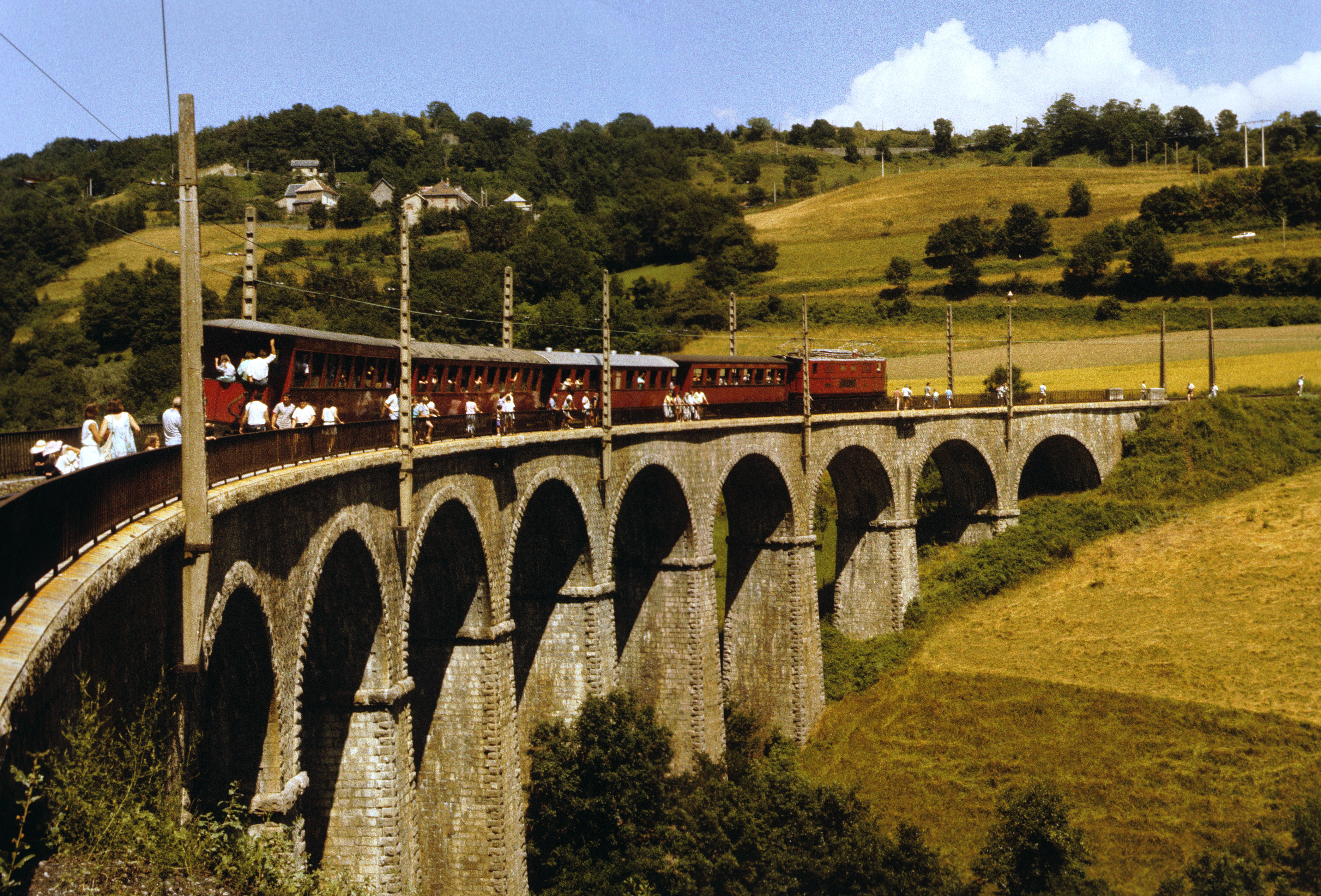 Vaulx viaduct with a tourist train of Chemin de fer de la Mure in 1988. Panoramic image stitched with hugin and enblend.